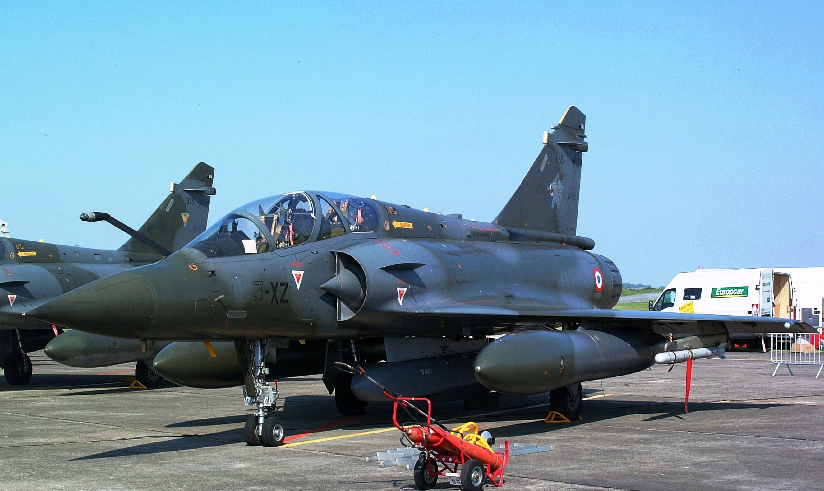 The mud mover variant of the French Air Force's Mirage 2000